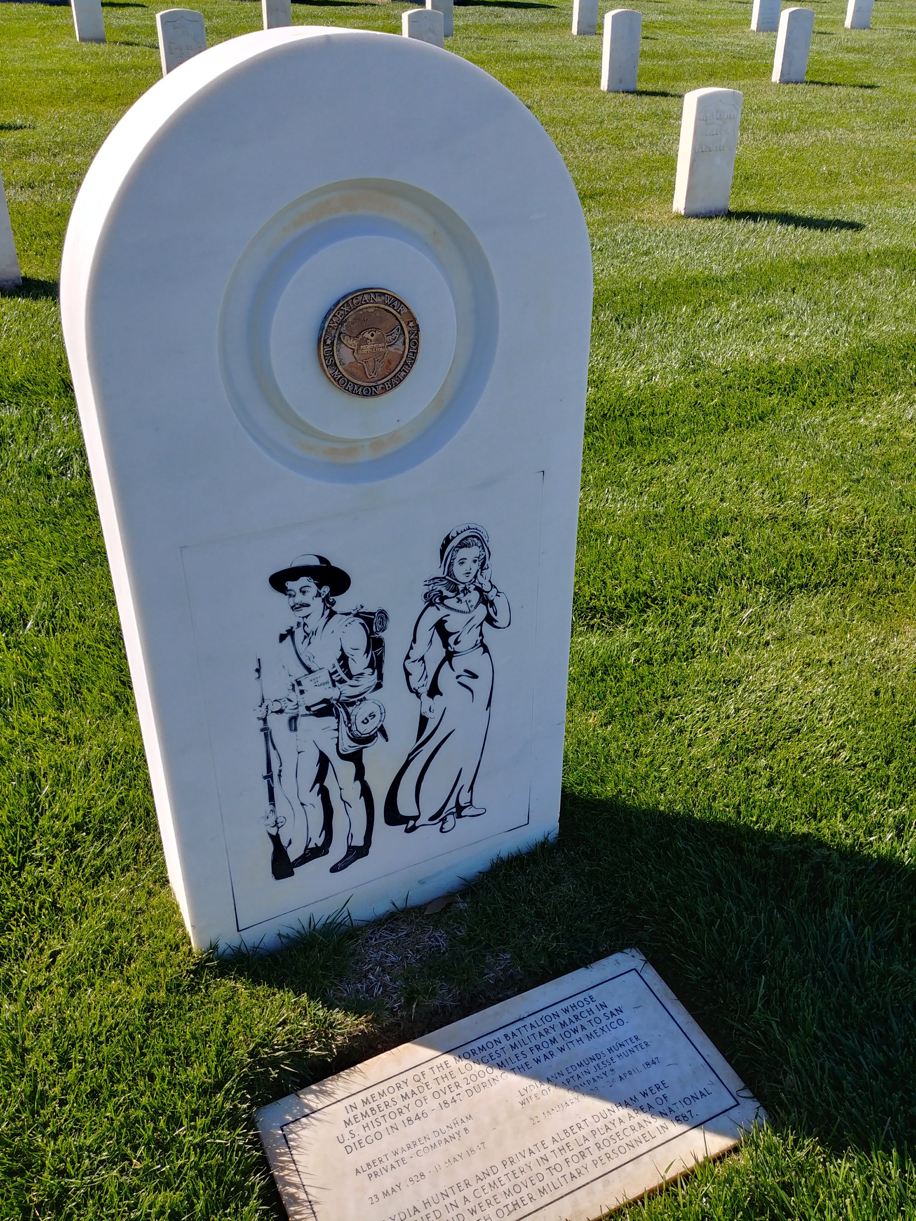 Mormon Battalion memorial, Fort Rosecrans National Cemetery, San Diego, California. According to the Veterans Administration, the memorial was erected in 1998 [1].